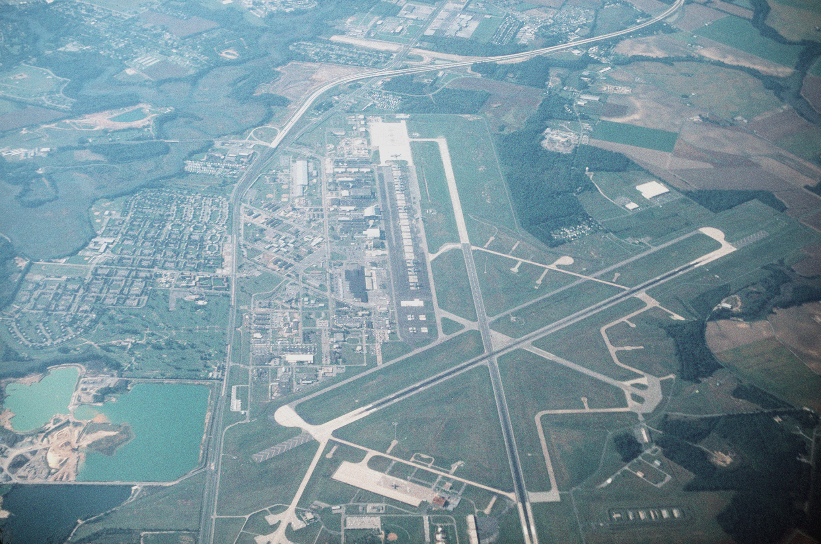 From the Depart of Defense image search website - Defense Visual Information Center. Picture comes up if you search for Dover Air Force Base ID: DNST9701702 Service Depicted: Navy Command Shown: N1601-SCT-9/95-040 High oblique aerial view, looking north. This joint use civil and military airfield is host to east coast based Air Mobility Command C-5B Galaxy transport aircraft of the 436th Air Mobility Wing. Location: DOVER AIR FORCE BASE, DELAWARE (DE) UNITED STATES OF AMERICA (USA) Camera Operator: PH2 BRUCE TROMBECKY Date Shot: 27 Sep 1995